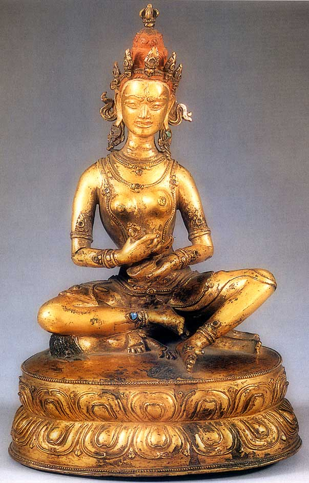 Nairatmya, Central Tibet, sixteenth century. Gilt copper inset with turquoise, painted with red pigment, height 9.25 in. (23.5 cm). Nairatmya represented as a seated yogini, her face ablaze with all-seeing wisdom.